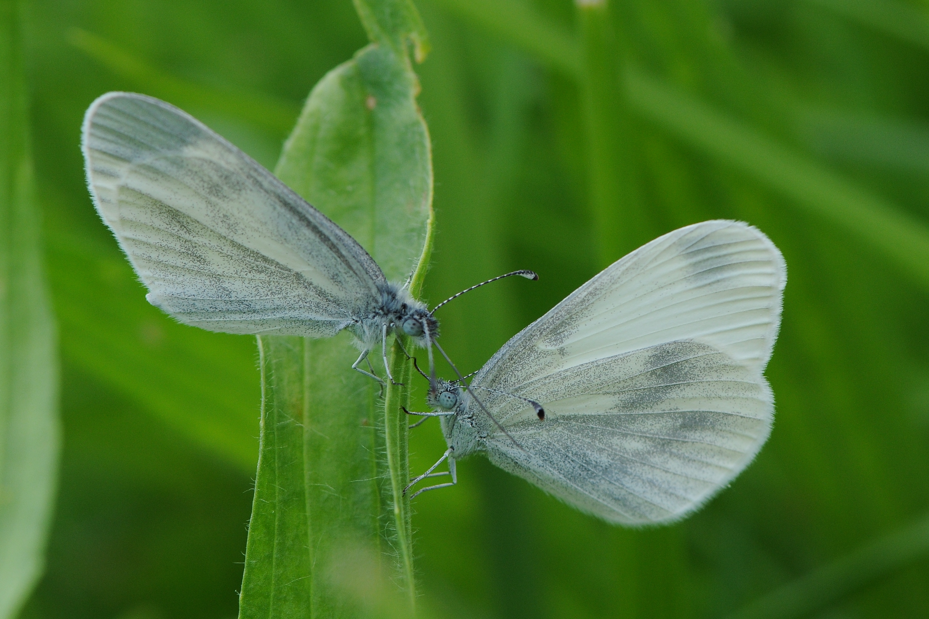 The Wood White is a butterfly of the Pieridae family. The plant is a Galium species. Photographed in Sennwald.